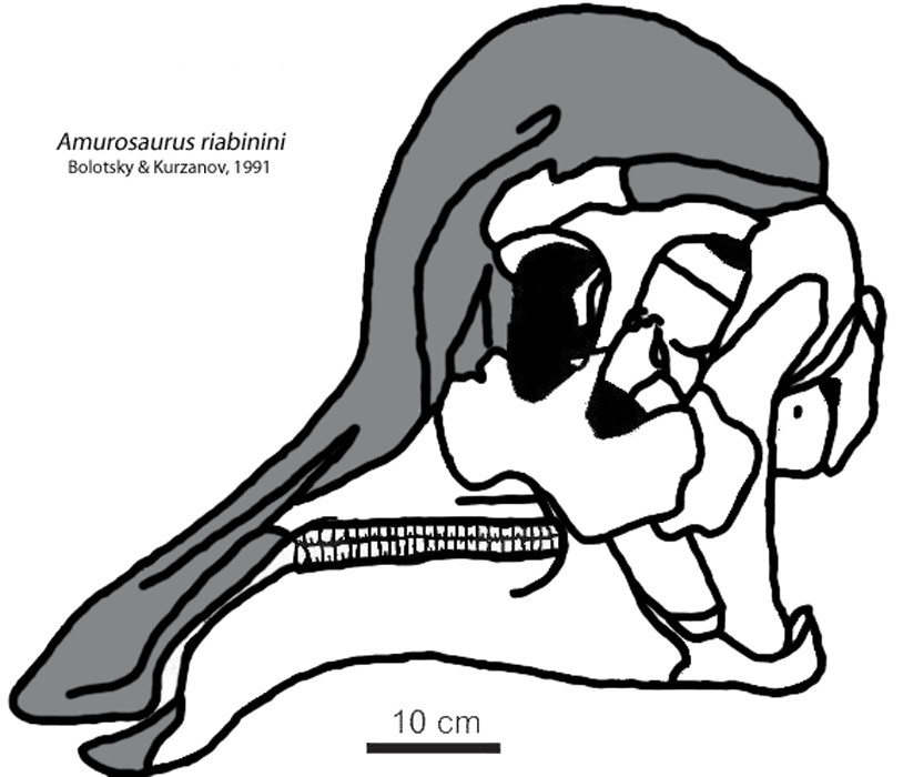 Reconstructed skull of Amurosaurus riabini (Bolotsky & Kurzanov, 1991). Most of the skull is complete, with only the crest, predentary and anterior portion of the skull missing.